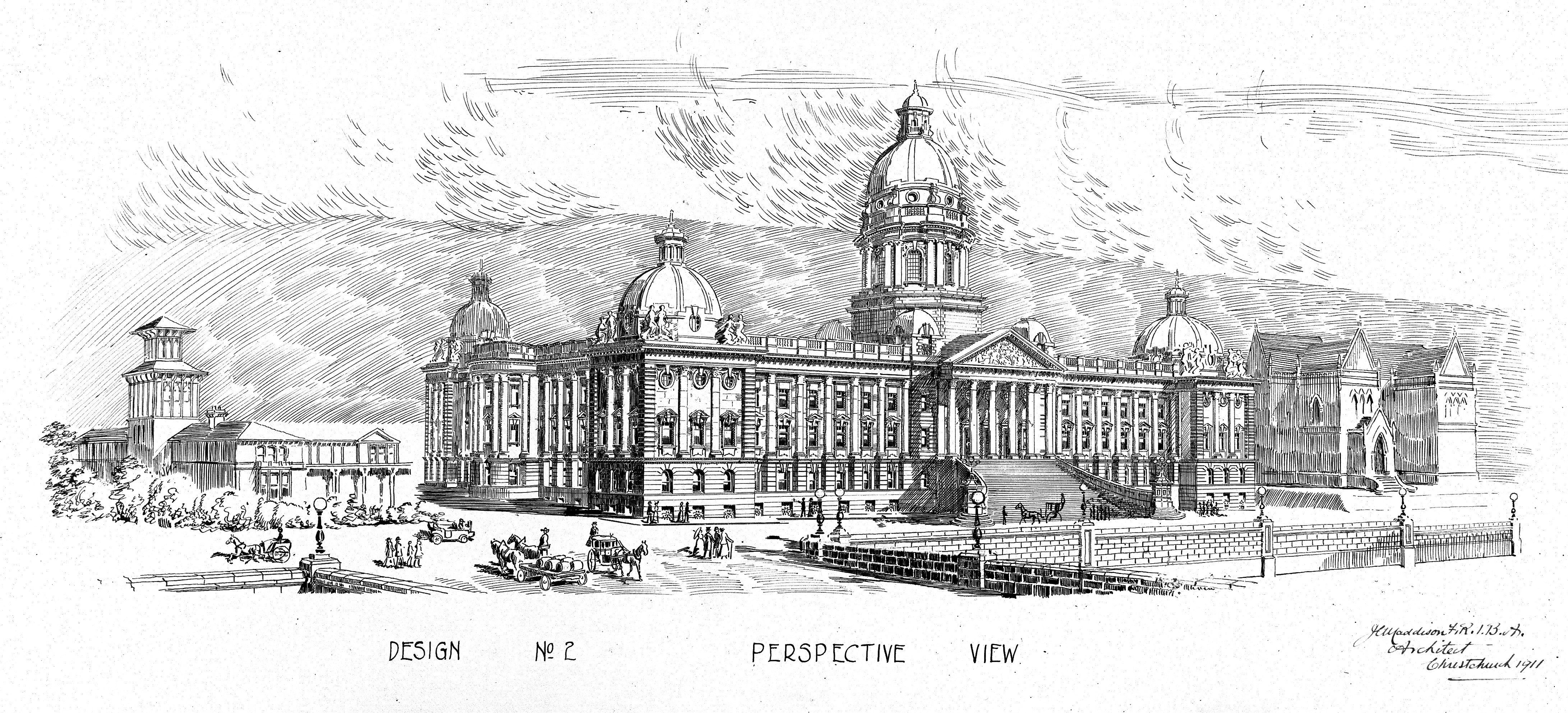 Photograph of a proposed design (alternative no 1), dated 1911, by Joseph Clarkson Maddison, for Parliament Buildings in Wellington. Photographer unidentified. Maddison was unsuccessful with this design.